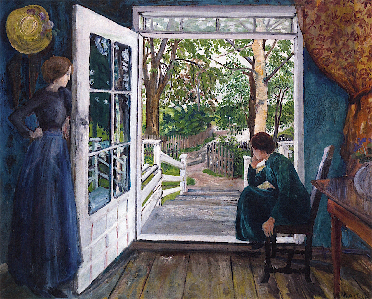 By the Open Door, Nicolai Astrup - 1902-1911.